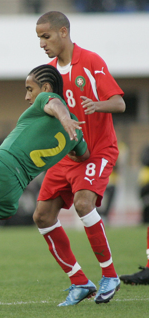 Moroccan football player Karim El Ahmadi during match against Cameroon